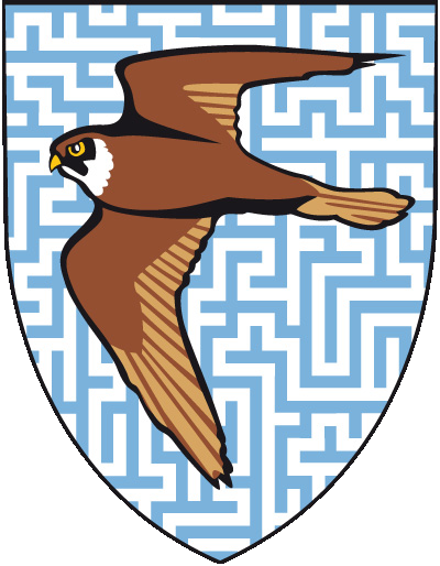 Logo of the General Inspection of Security Forces